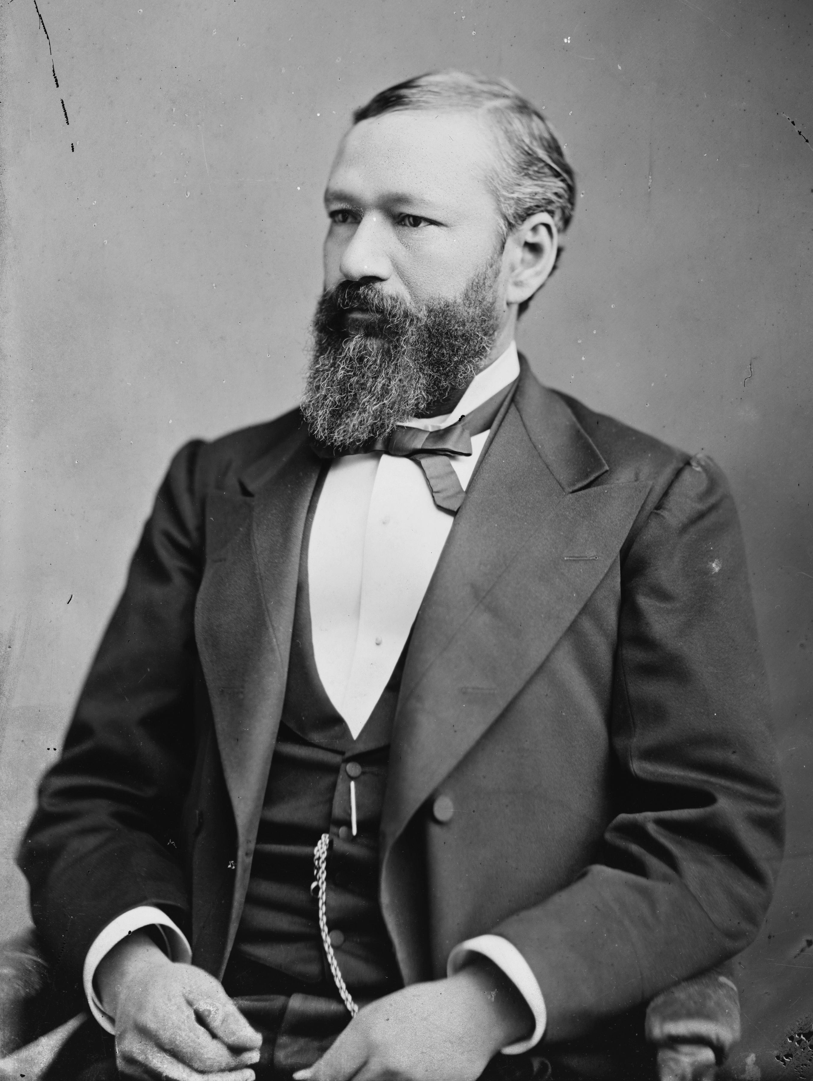 P. B. S. Pinchback. Library of Congress description: "Gov. Pinchback"